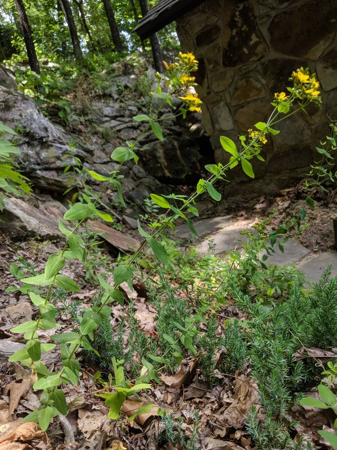 Hypericum punctatum, St. John's wart, plant